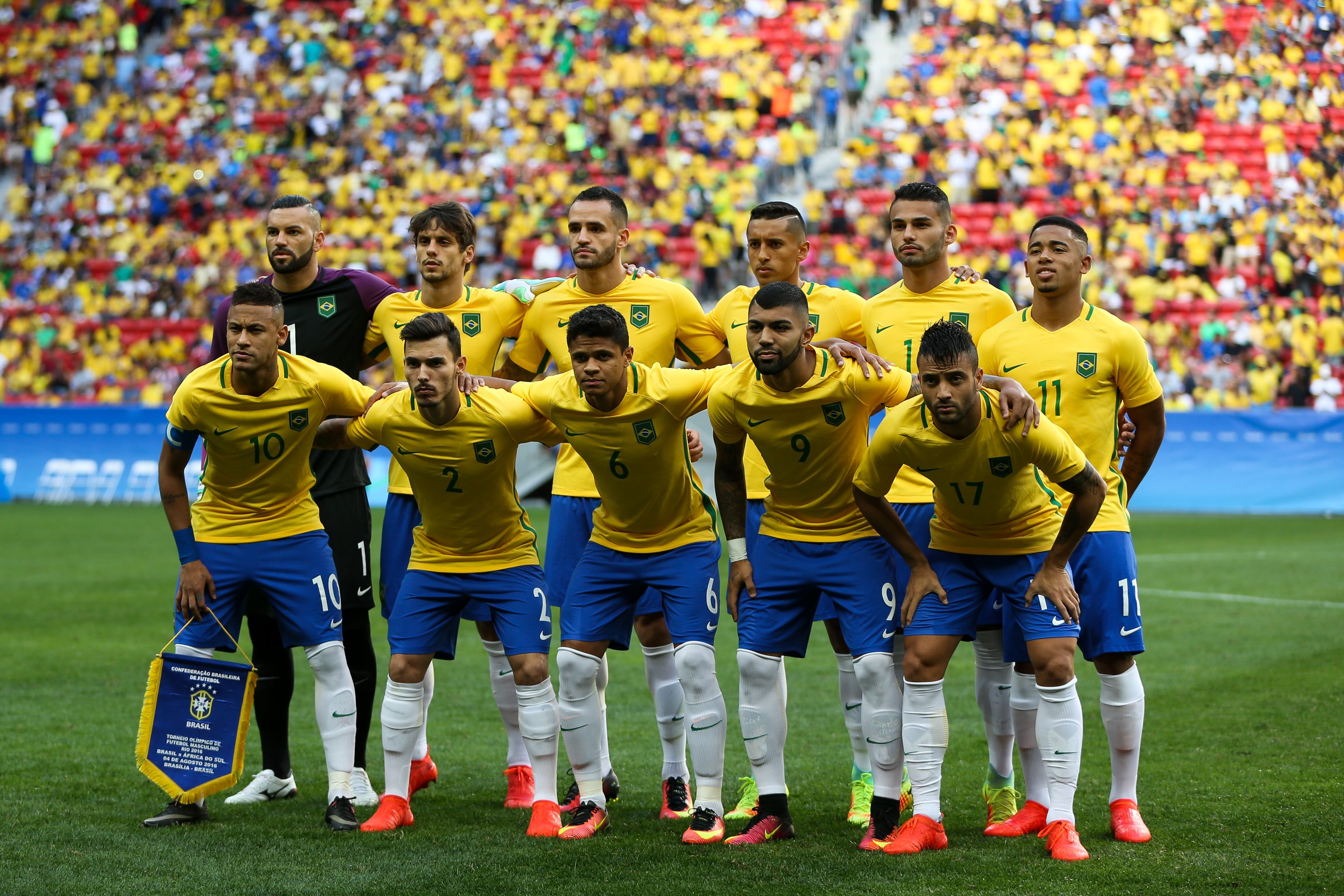 Brasília - Futebol masculino da seleção brasileira, deu o seu pontapé inicial na Olimpíada Rio 2016, em uma partida contra a África do Sul, no Estádio Mané Garrincha (Marcelo Camargo/Agência Brasil)